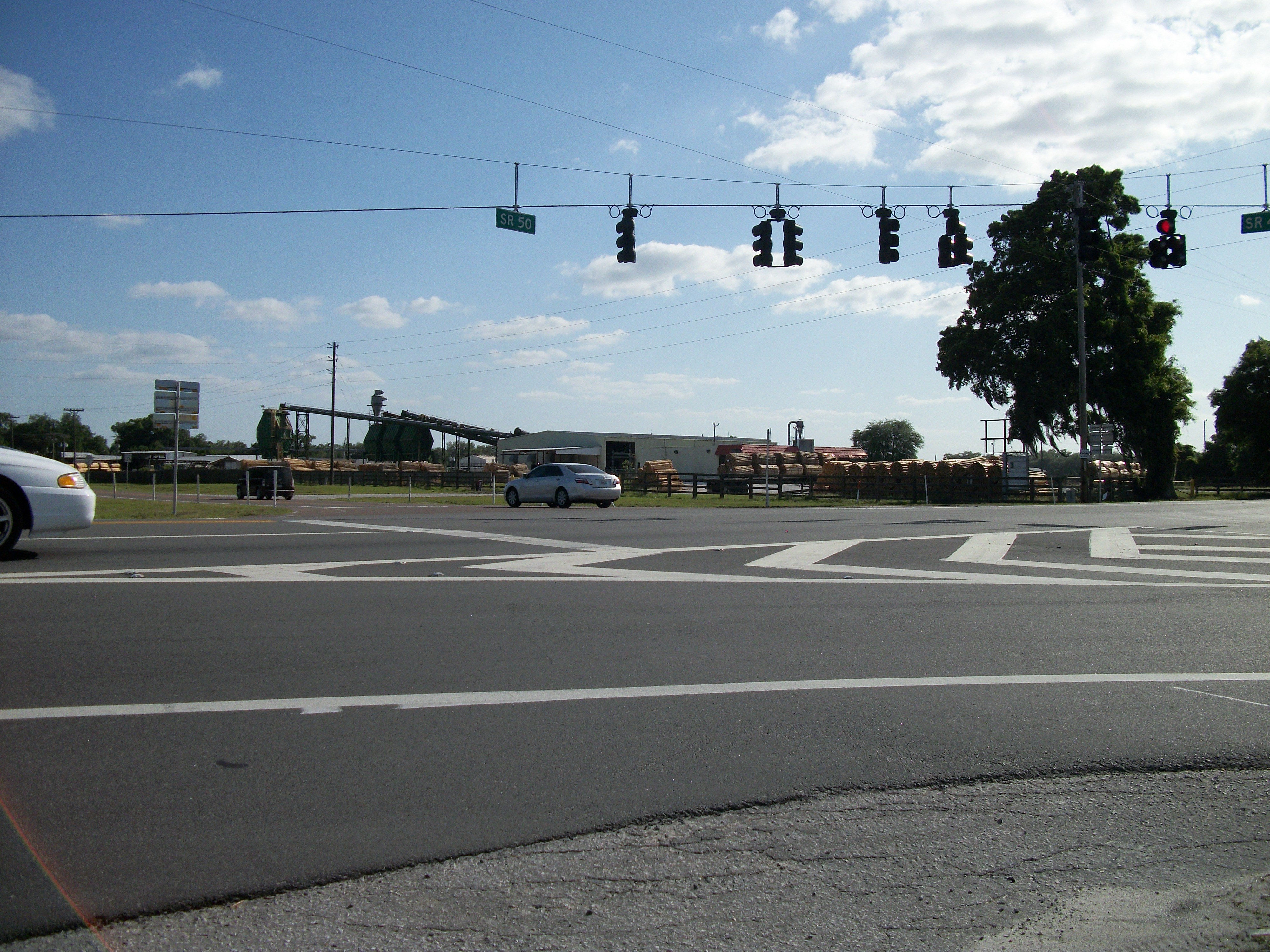 Image of a huge lumber yard, the chief industry of the unincorporated hamlet of Tarrytown, Florida, as taken from an abandoned gas station on the northeast corner of Florida State Road 50 and Florida State Road 471, in Sumter County, Florida.